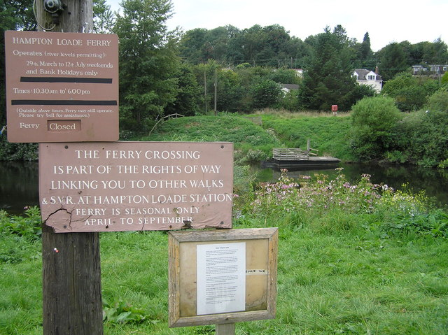 River Severn, Hampton Loade Ferry Ferry does close if river rises rapidly, in an emergency cross the river at the upstream waterworks bridge which is not a public right of way.